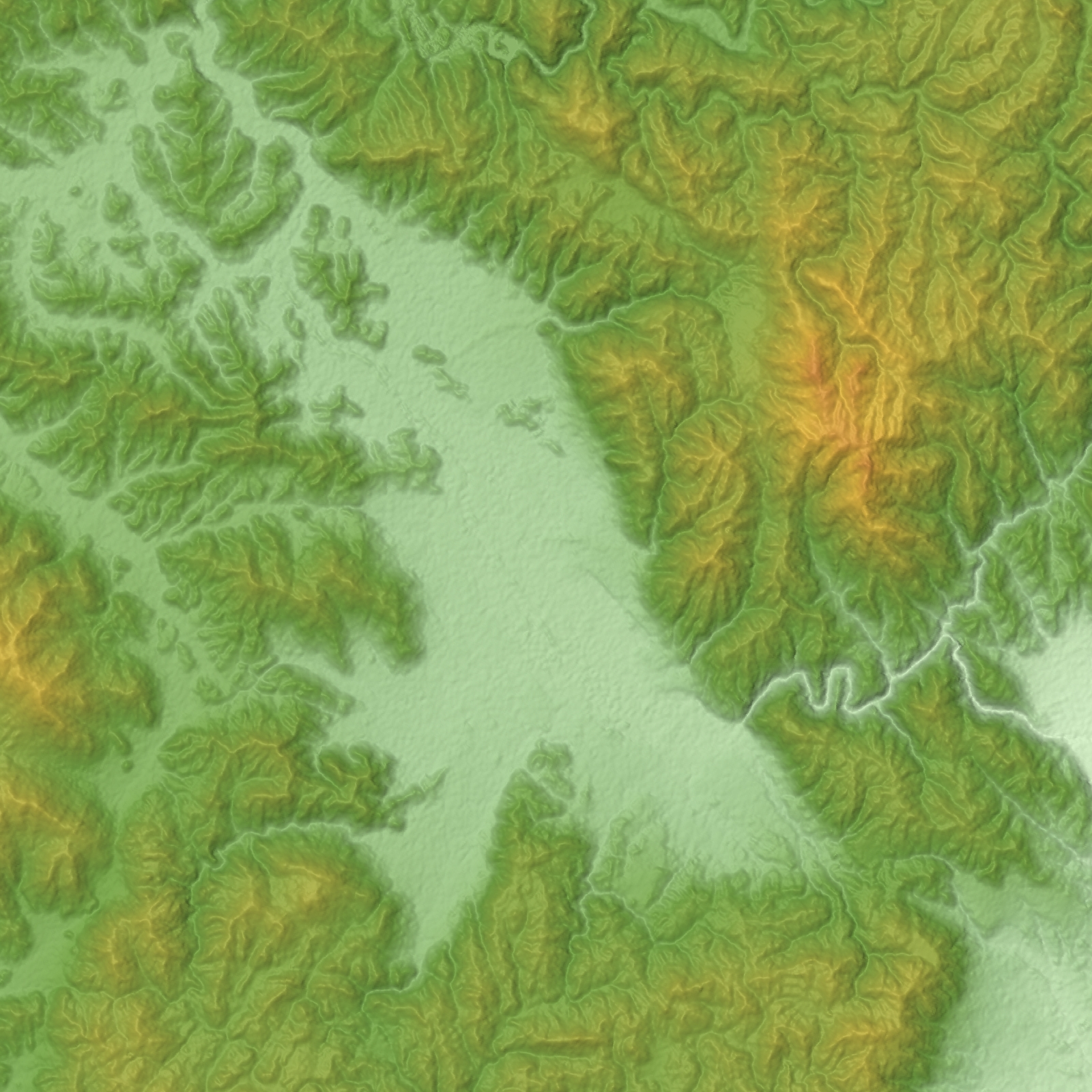 Kameoka Basin in Kyoto Prefecture, Honshu, Japan.